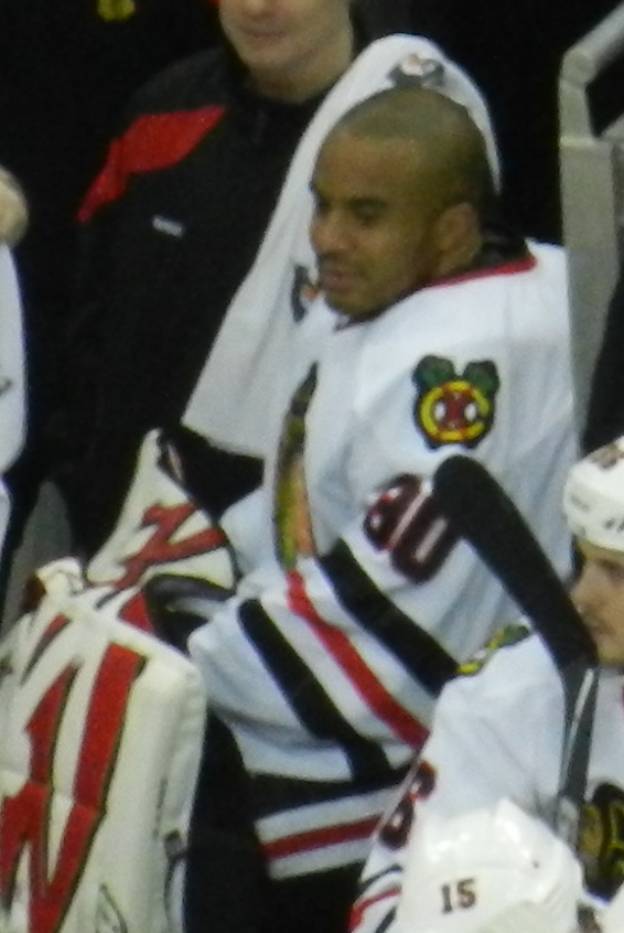 Ray Emery playing for the Chicago Blackhawks in 2012-02-18